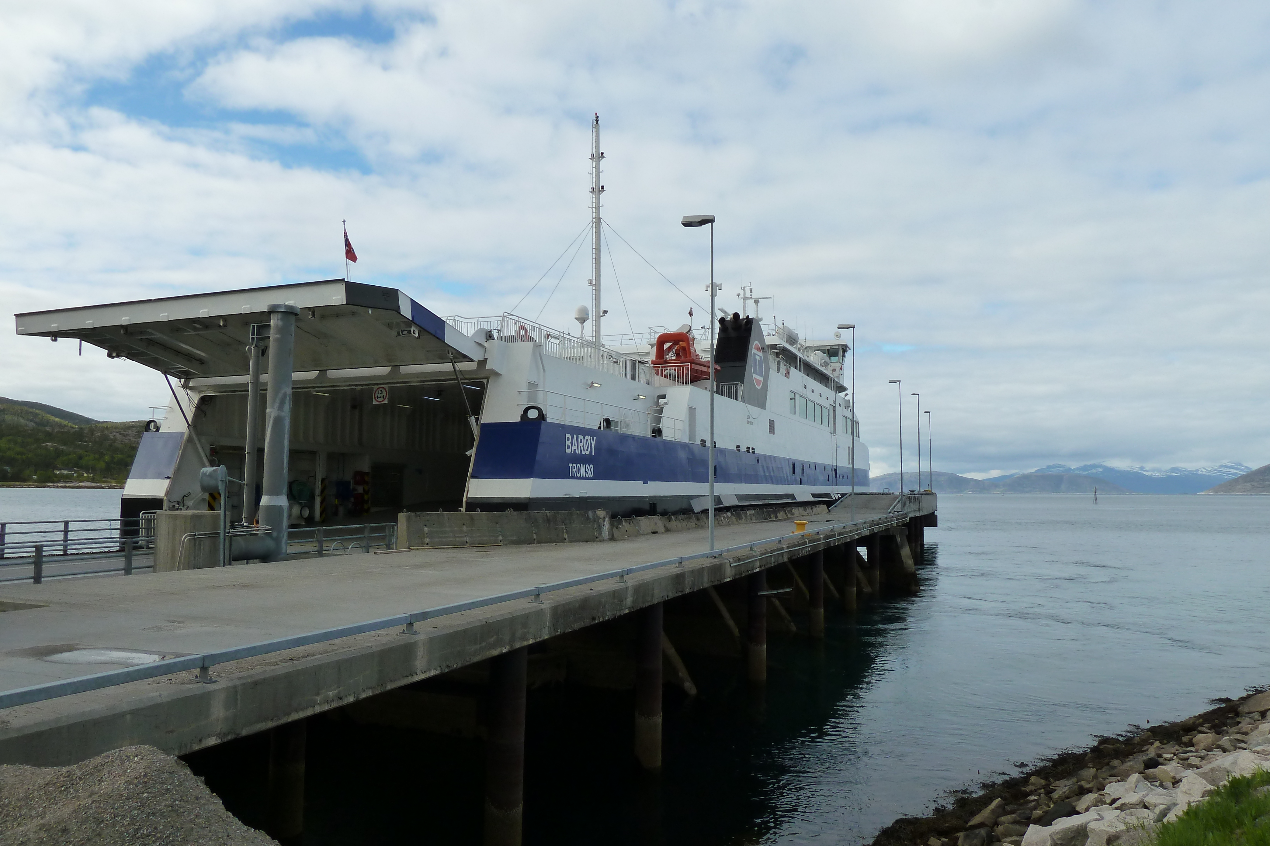 Gas driven car ferry "Barøy" in Bognes, Nordland, Norway.